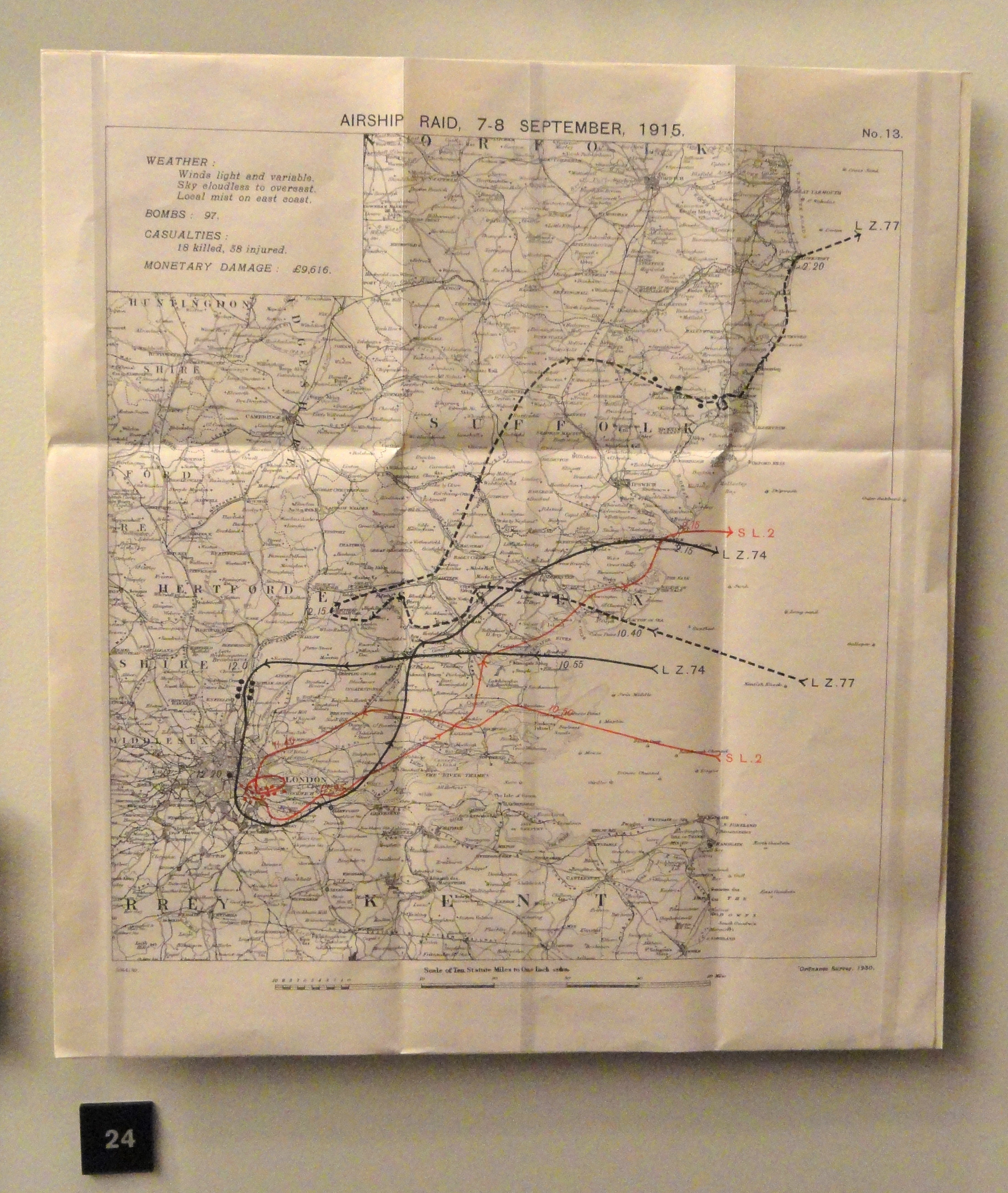 Exhibit in the National World War I Museum at the Liberty Memorial, 100 W. 26th Street, Kansas City, Missouri, USA.